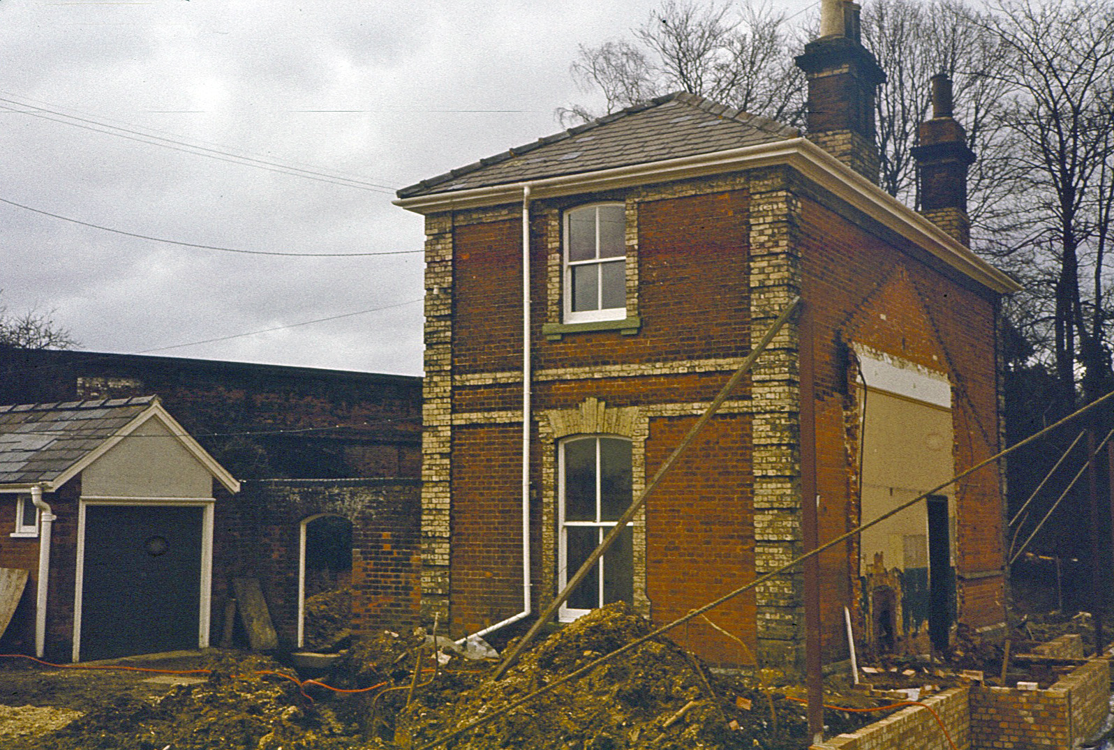 c1978 Long since closed by Beeching c1962 and partially demolished